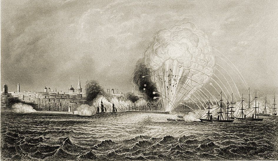 Bombardment of Odessa by the English and French on 22 April 1854, showing the explosion of the Imperial Mole. From a sketch by an officer during the action.